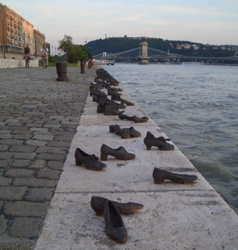 Photo User:Tamas Szabo 2006